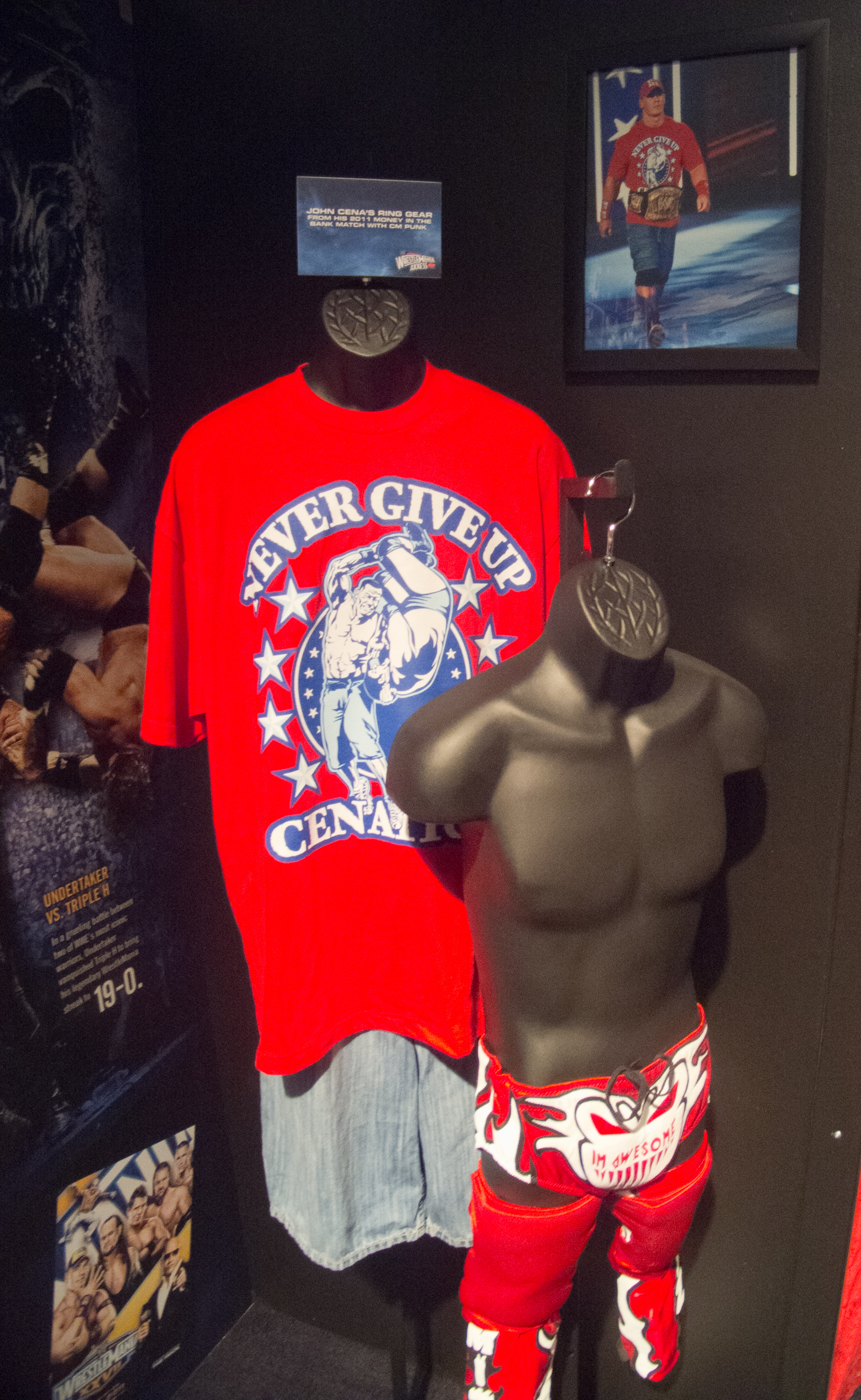 WWE Fan Axxess - Classic Memorabilia/Ring Gear